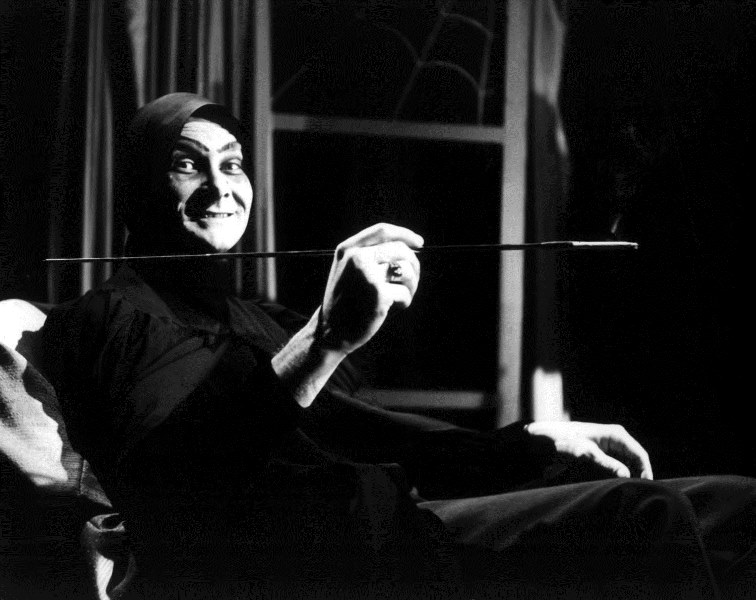 In 1962, local station WTTV-4 needed a host for their Friday night monster movies. Talk show host Robert Carter proposed “Sammy Terry,” a ghoul who emerged from his coffin each week to introduce the films.